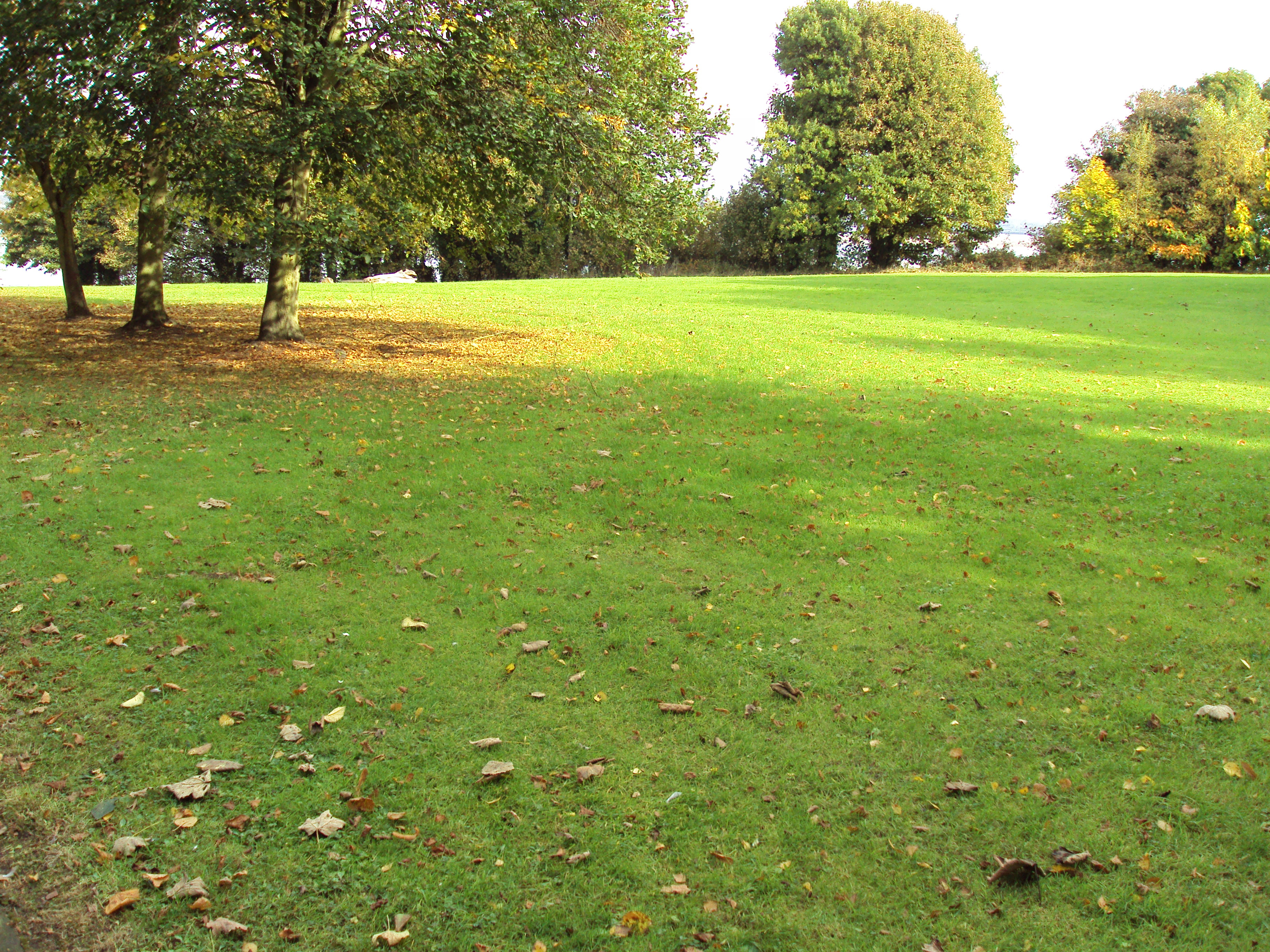 A green space beside Ferry Road, Eastham Country Park, Wirral, Merseyside, England.